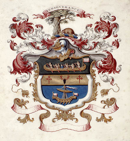 North West Company coat of arms, ca. 1800-1820